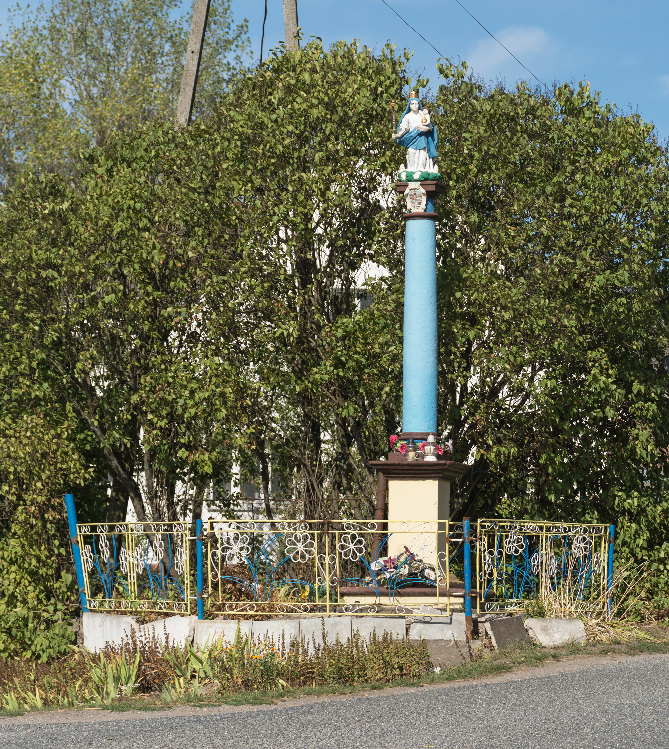 Maria column in Gorzuchów